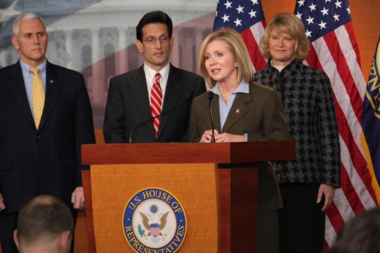 Marsha Blackburn with Eric Cantor and Cynthia Lummis in Washington discussing the legislative agenda ahead of the State of the Union Address